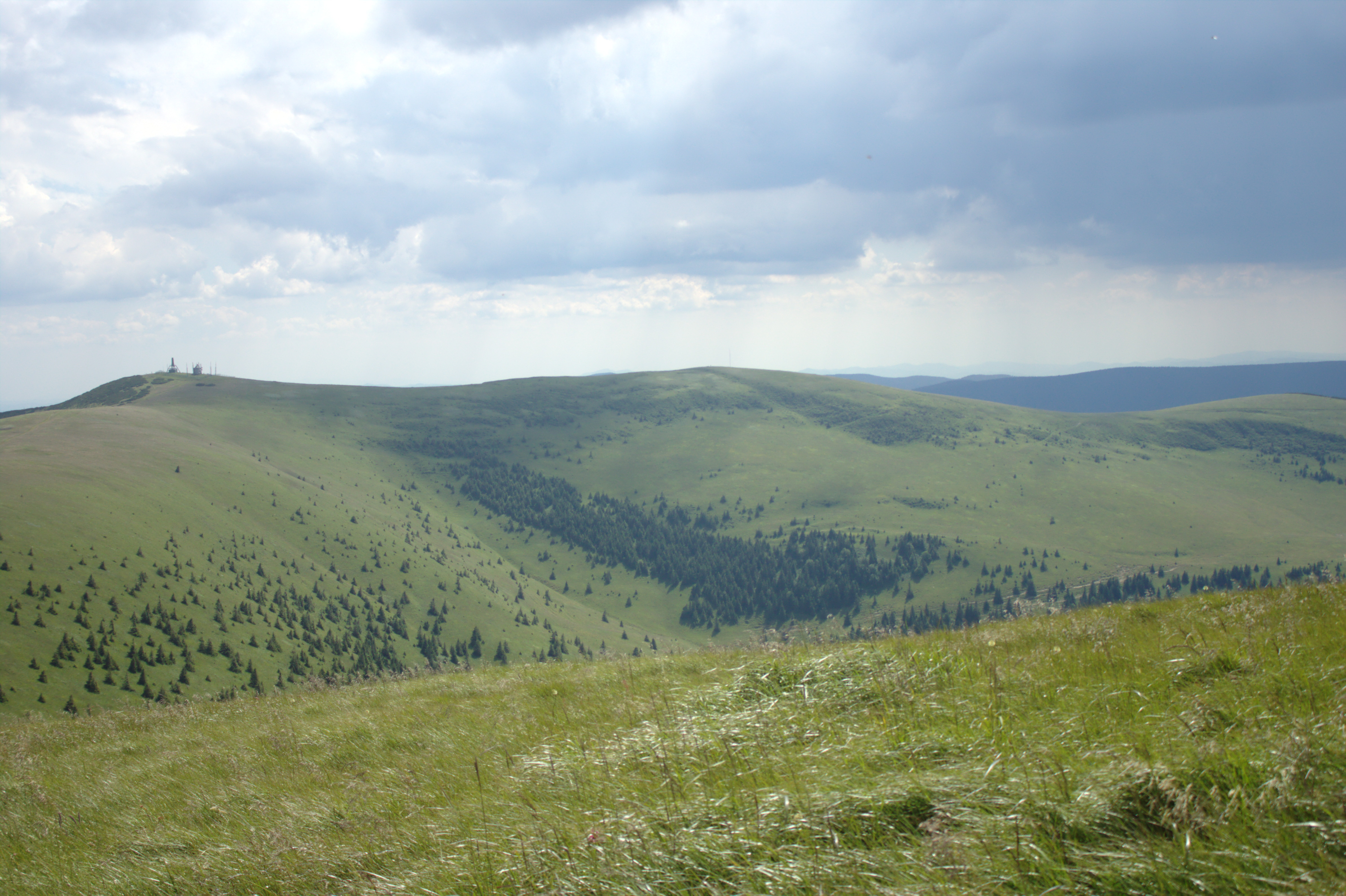 Krížna hill seen from north, Slovakia